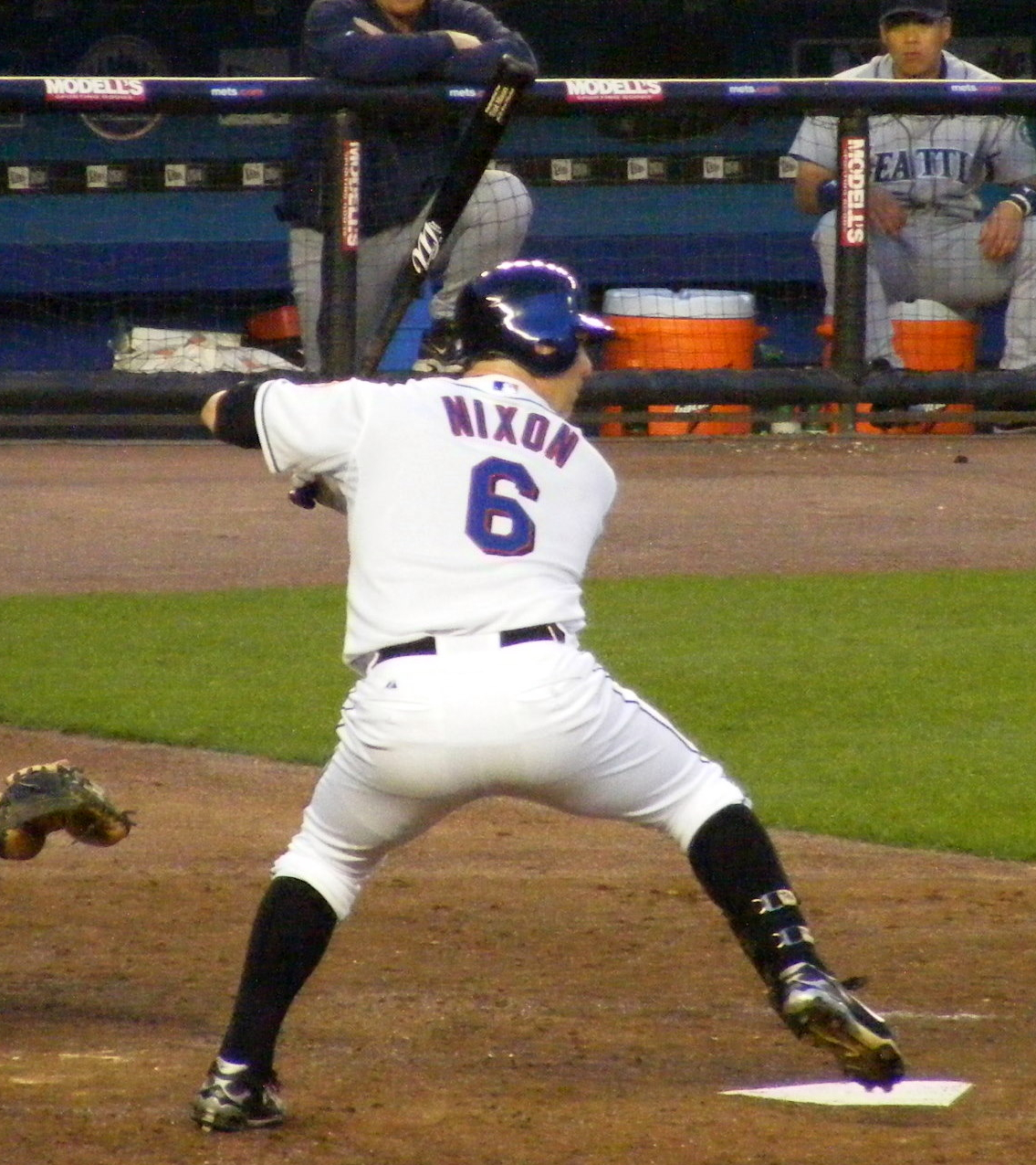 Trot Nixon with the New York Mets in 2008